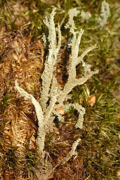 Picture taken in Commanster, Belgian High Ardennes . Species: Cladonia squamosa